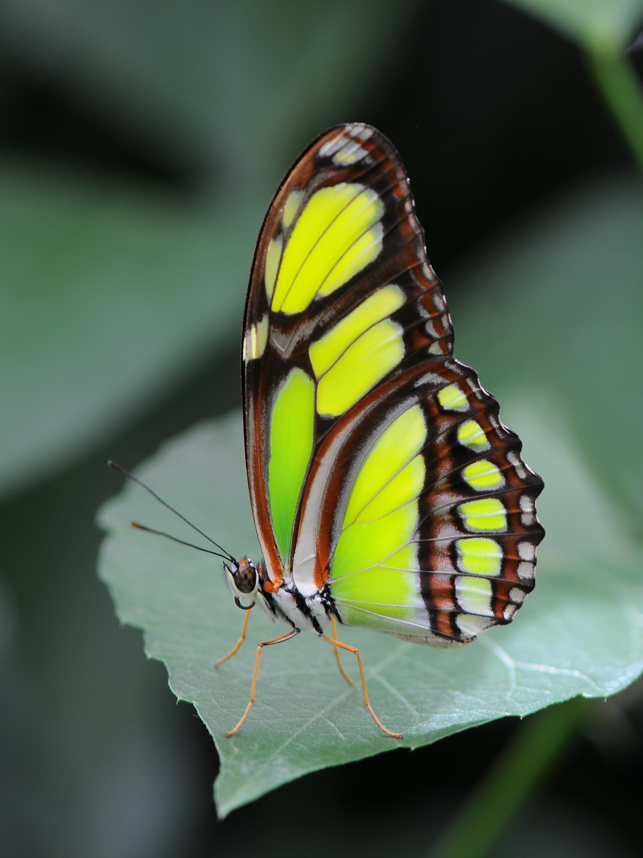 A Scarce Bamboo Page Philaethria dido seen in the butterfly house on the island of Mainou, Lake Constance, Germany.